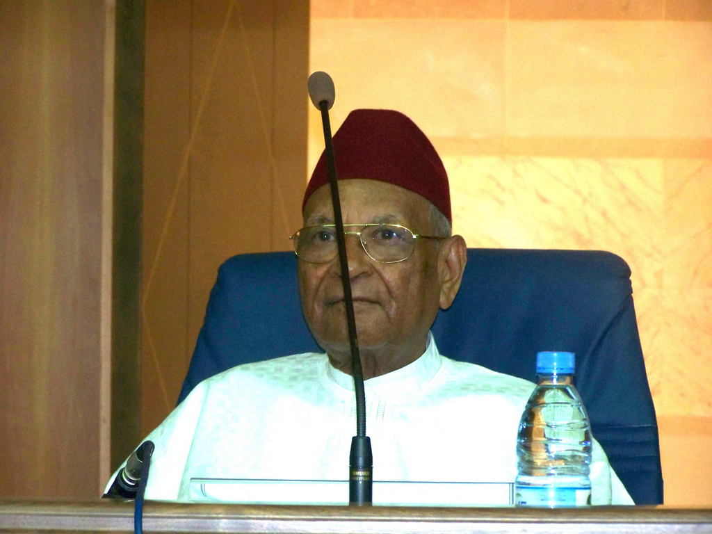 Matar mbow